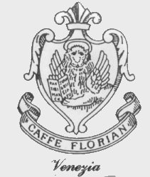 Crest of Caffe Florian, Venice